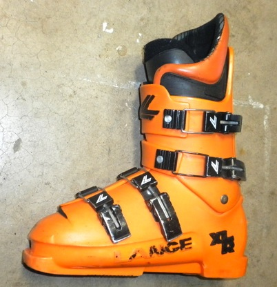 The image shows the left boot in a pair of Lange XL-R ski boots. These are typical of the late 1980s state of the art. The XL-R was the premier downhill racing boot of the 1980s, undergoing a series of upgrades in the Z, T and follow-on series. The basic form of the XL-R has stayed the same since; the cuff around the leg rises to a point just under the calf muscles, overlapping plastic on the front locks the cuff into a cylindrical shape, and four buckles, two on the foot and two on the cuff, hold the boot closed. Almost all modern ski boots are essentially identical in design, the only addition being a velcro strap around the uppermost part of the cuff to hold the liner against the back of the cuff.